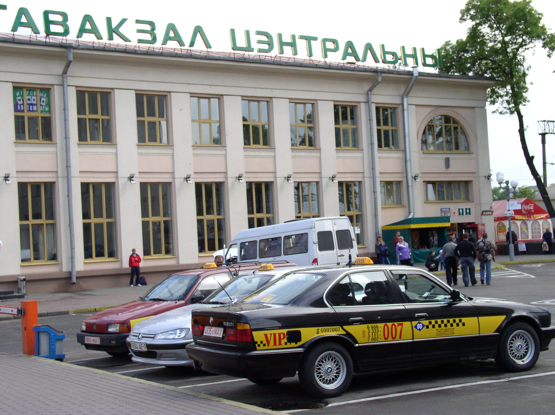 Central Bus Station. Minsk, Belarus.